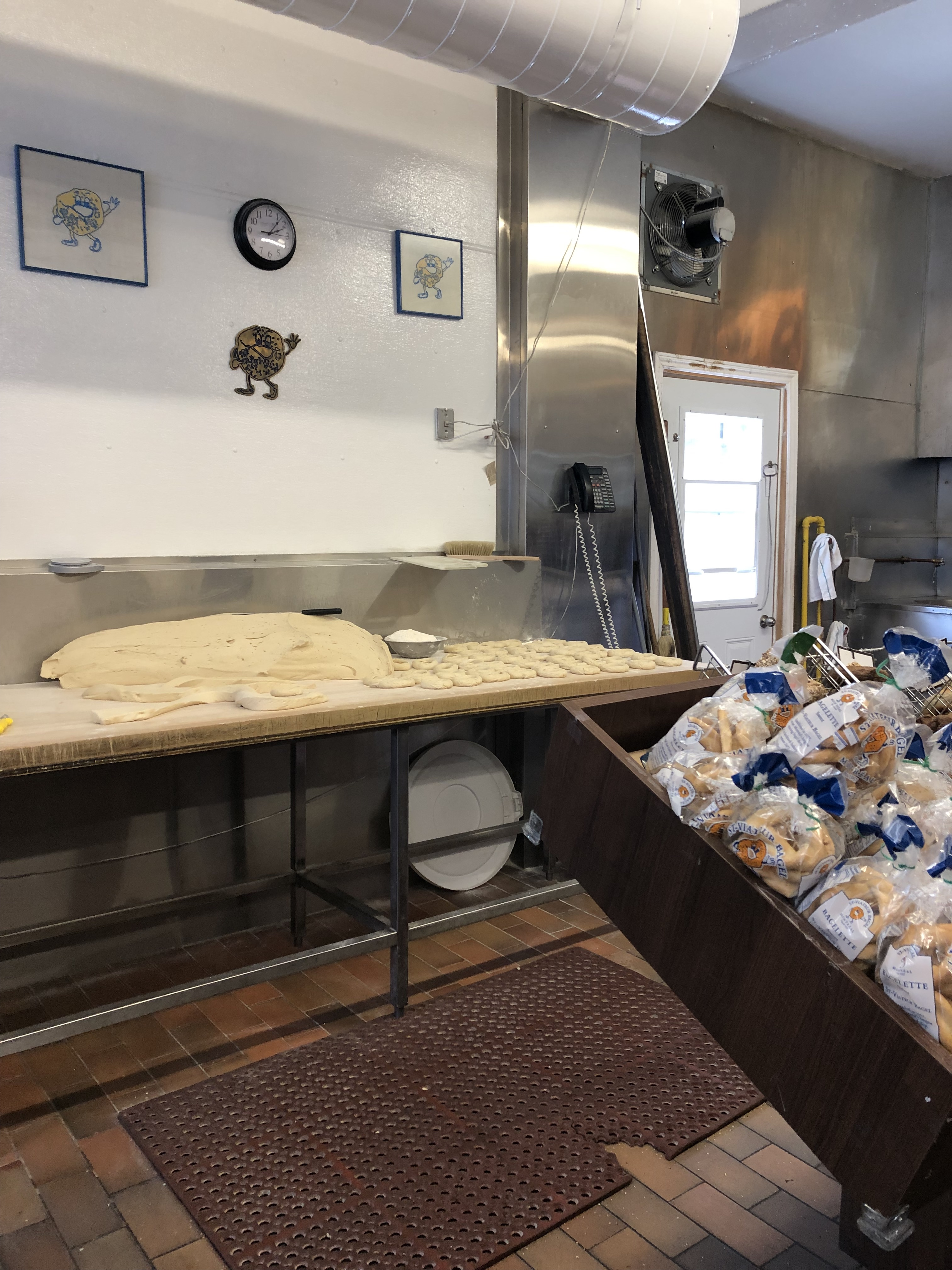 The dough is made in large amounts, then small pieces are cut and formed into the circular shape.